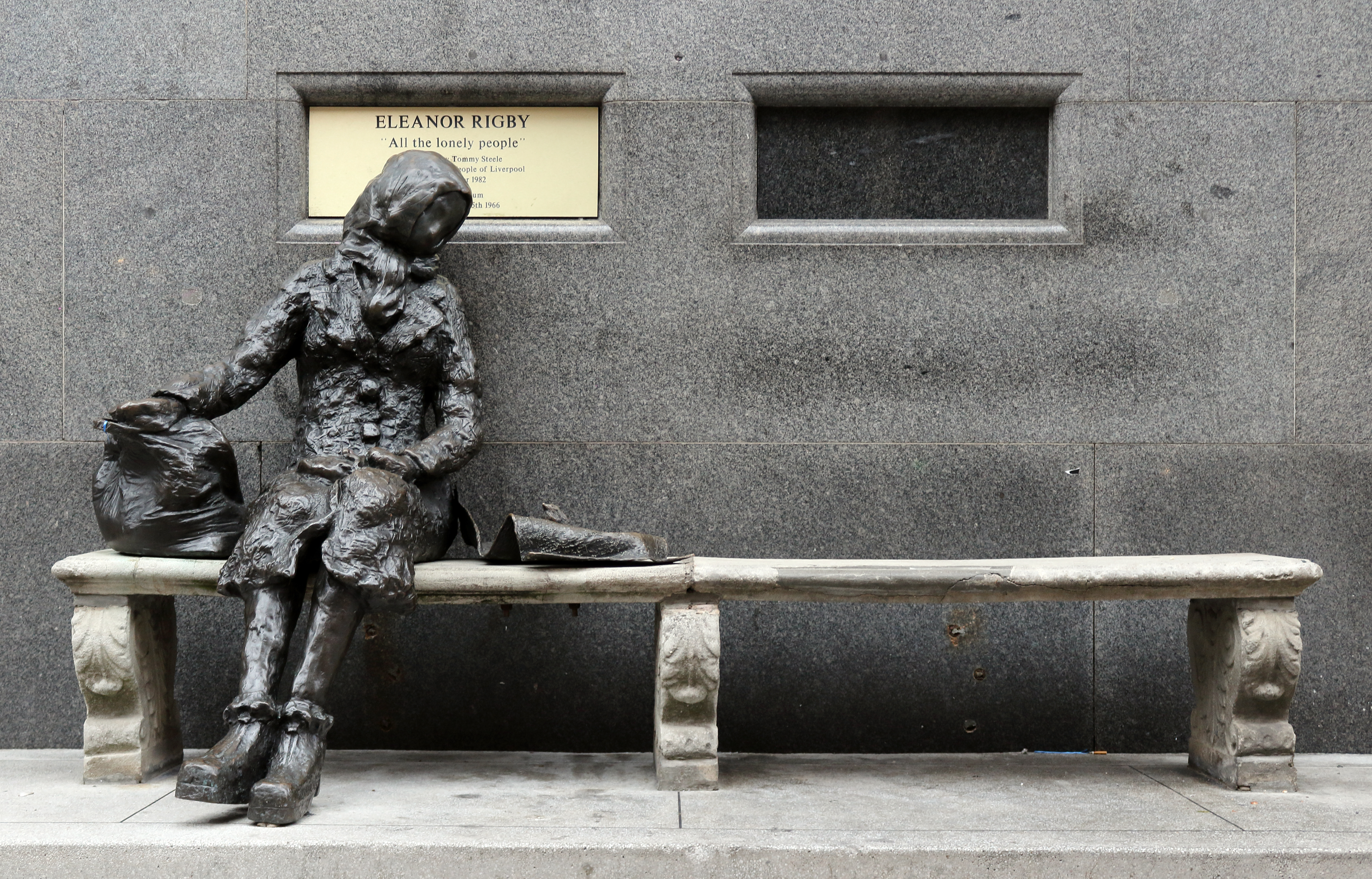 The statue and bench as seen from the roadway of Stanley Street.